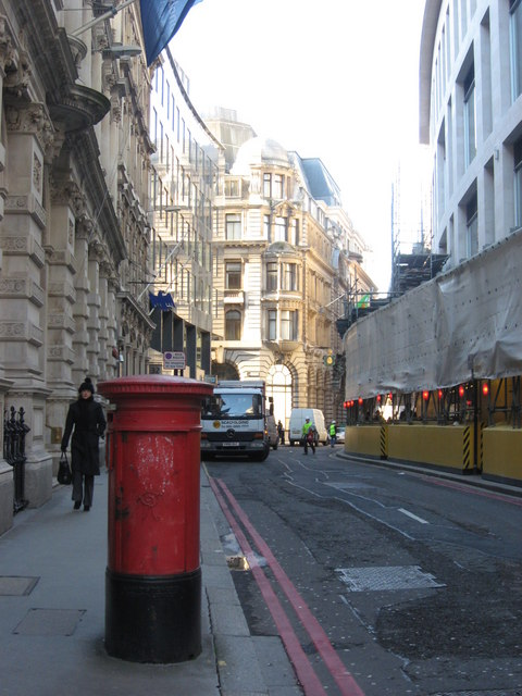 Lombard Street, EC3. Shows the location of 1094103.